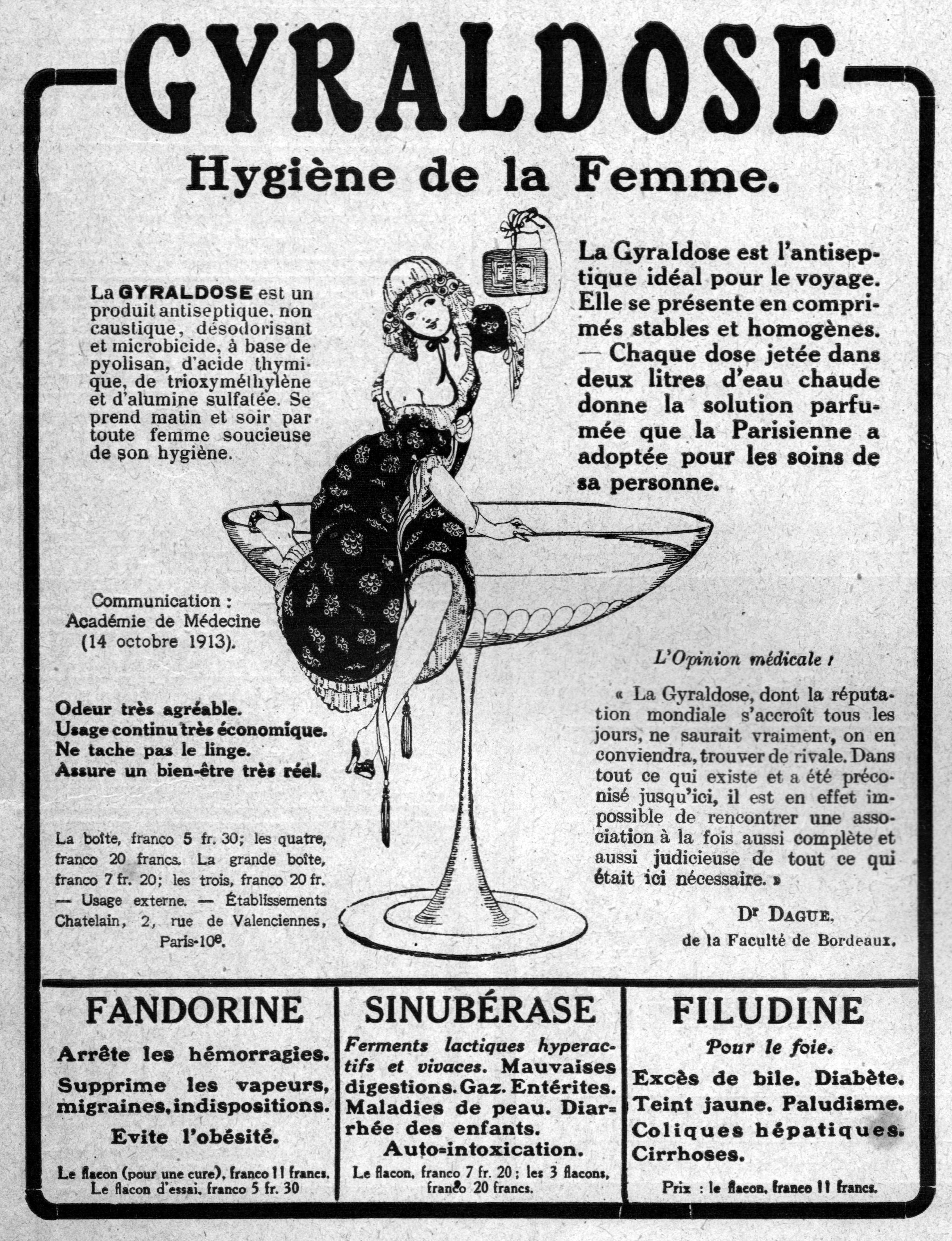 Scan of L'ILLUSTRATION No 3909 2 Février 1918. Gyraldose, Annonces 1